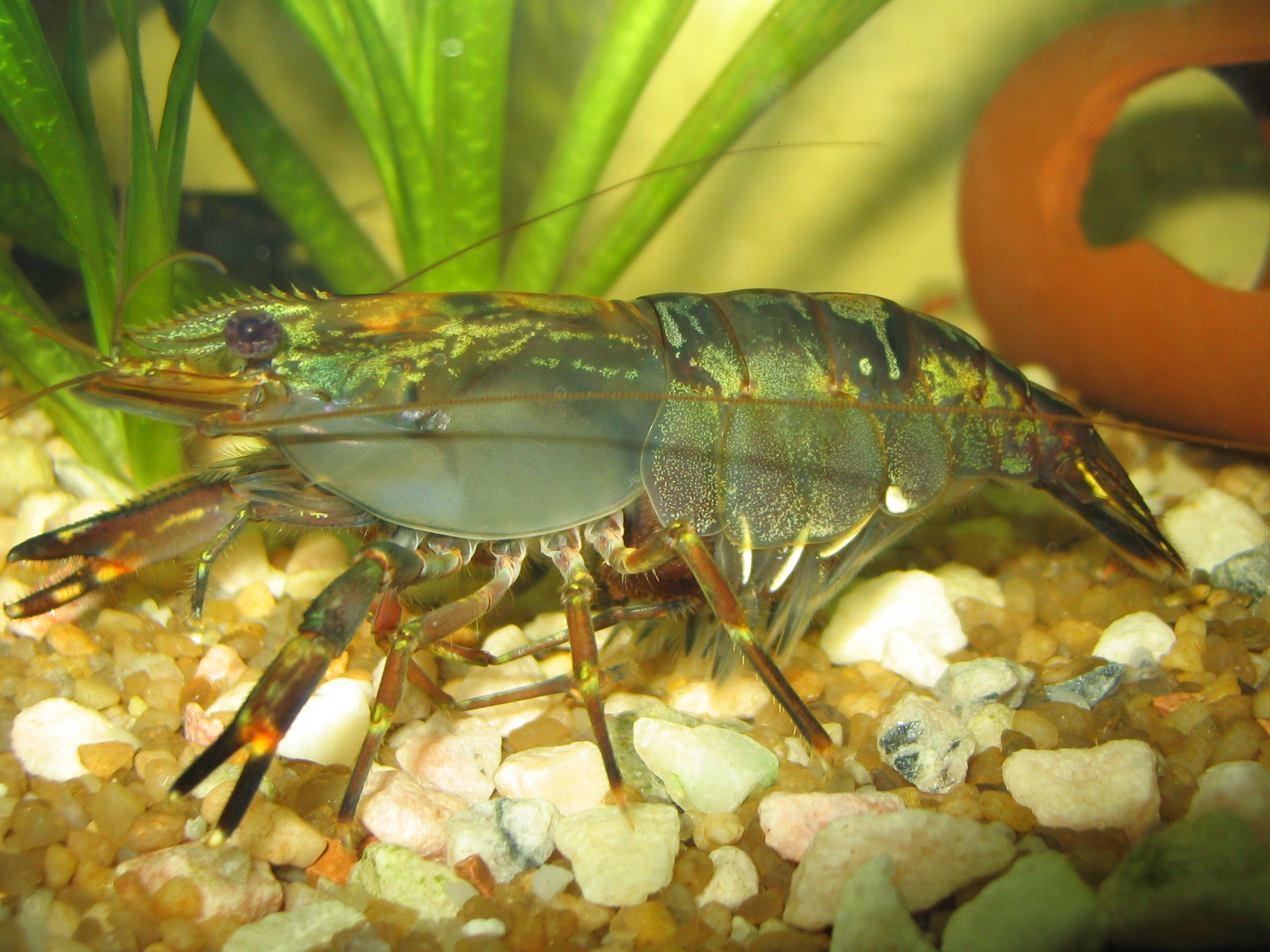 Female collected as juvenile then raised and bred in experimental aquarium. Collected in a small stream in CoopeSilencio, Quepos, Costa Rica.